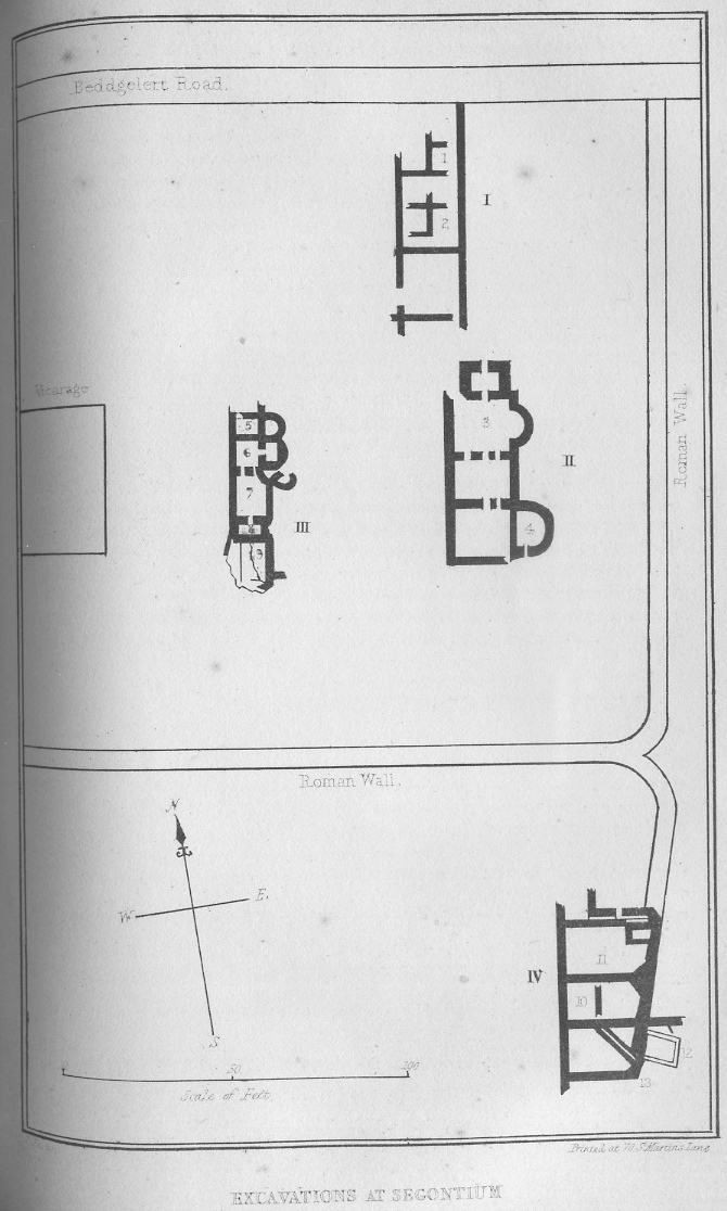 Segontium Exacavations 1846. Archaeologia Cambrensis pg 176. Roman Hypocausts and Baths